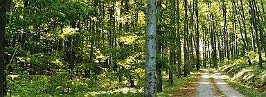 Picture of Wienerwald at Breitenfurt from German Wikipedia by Eisenbach.